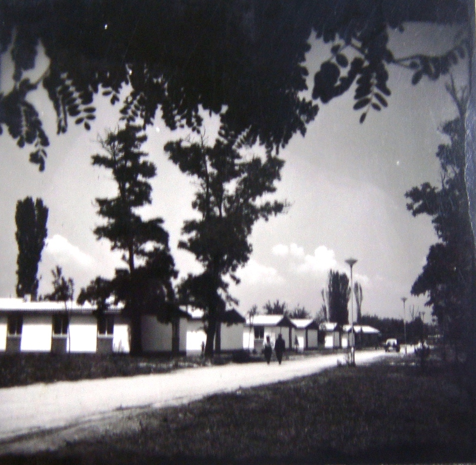 1963 Skopje earthquake: Apartments in the settlement Aerodrom, 1964 This media file is produced by Wikipedian in Residence in Category:Wikipedian in Residence at DARM in 2016.